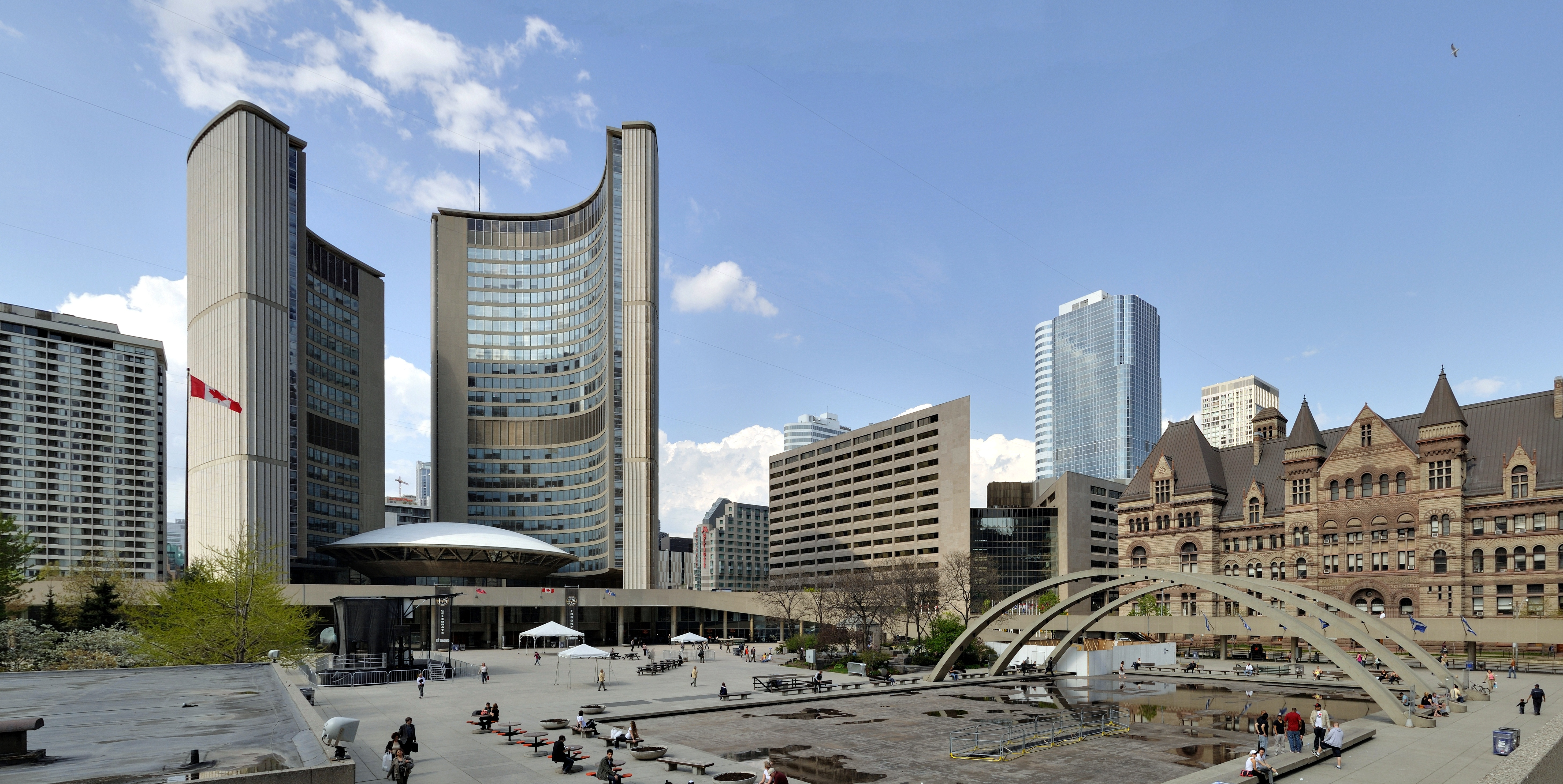 Nathan Phillips Square, Toronto.